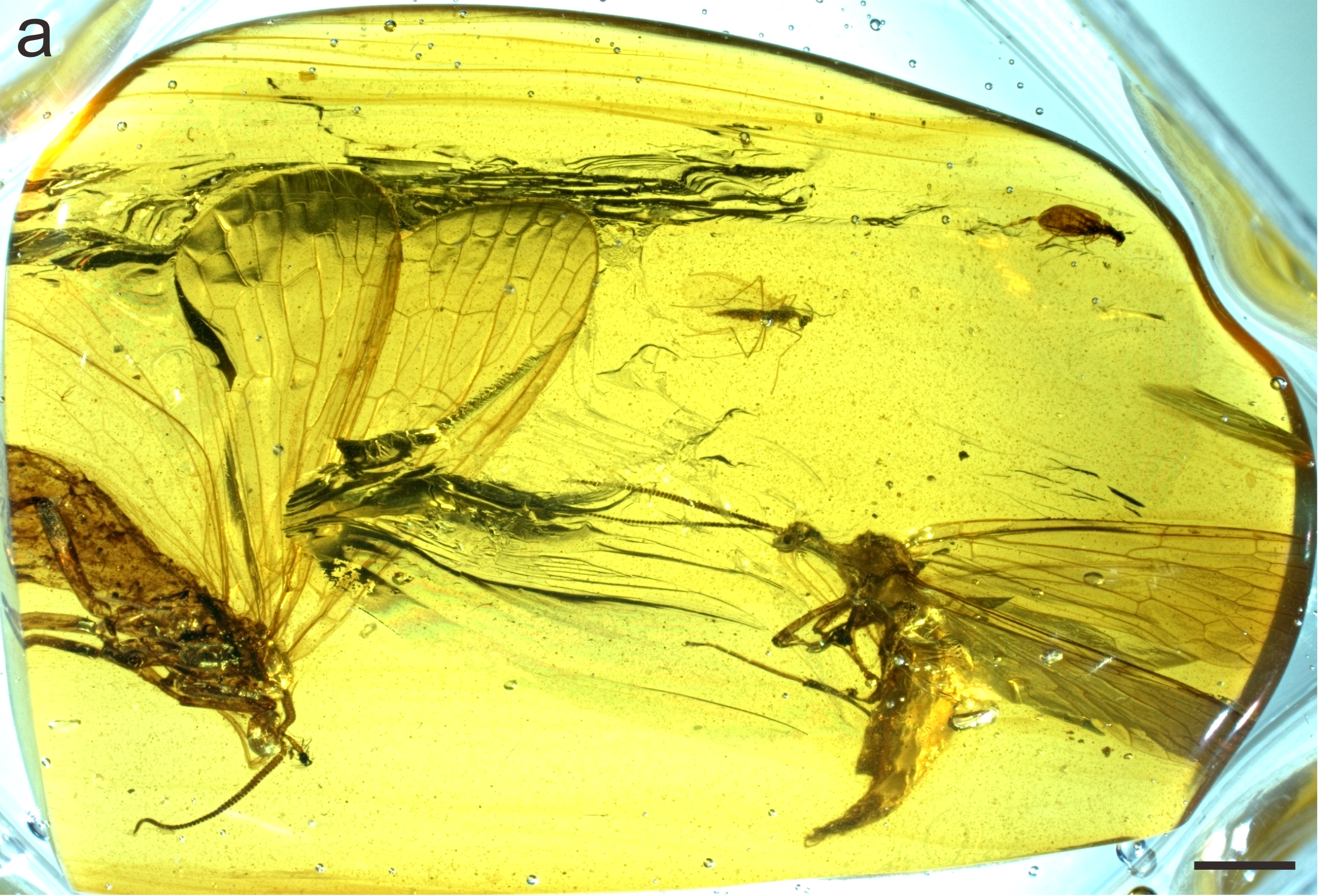 Aneuretopsychidae from Late Cretaceous Burmese amber. (A) Burmopsyche bella; holotype, NIGP166158a (left); paratype, NIGP166158b (right). An, antennae; Ce1, cercus segment 1; Ce2, cercus segment 2; Fc, food channel; Ga, galea; Hy, hypopharynx; Mxp, maxillary palp. Scale bar, 2 mm